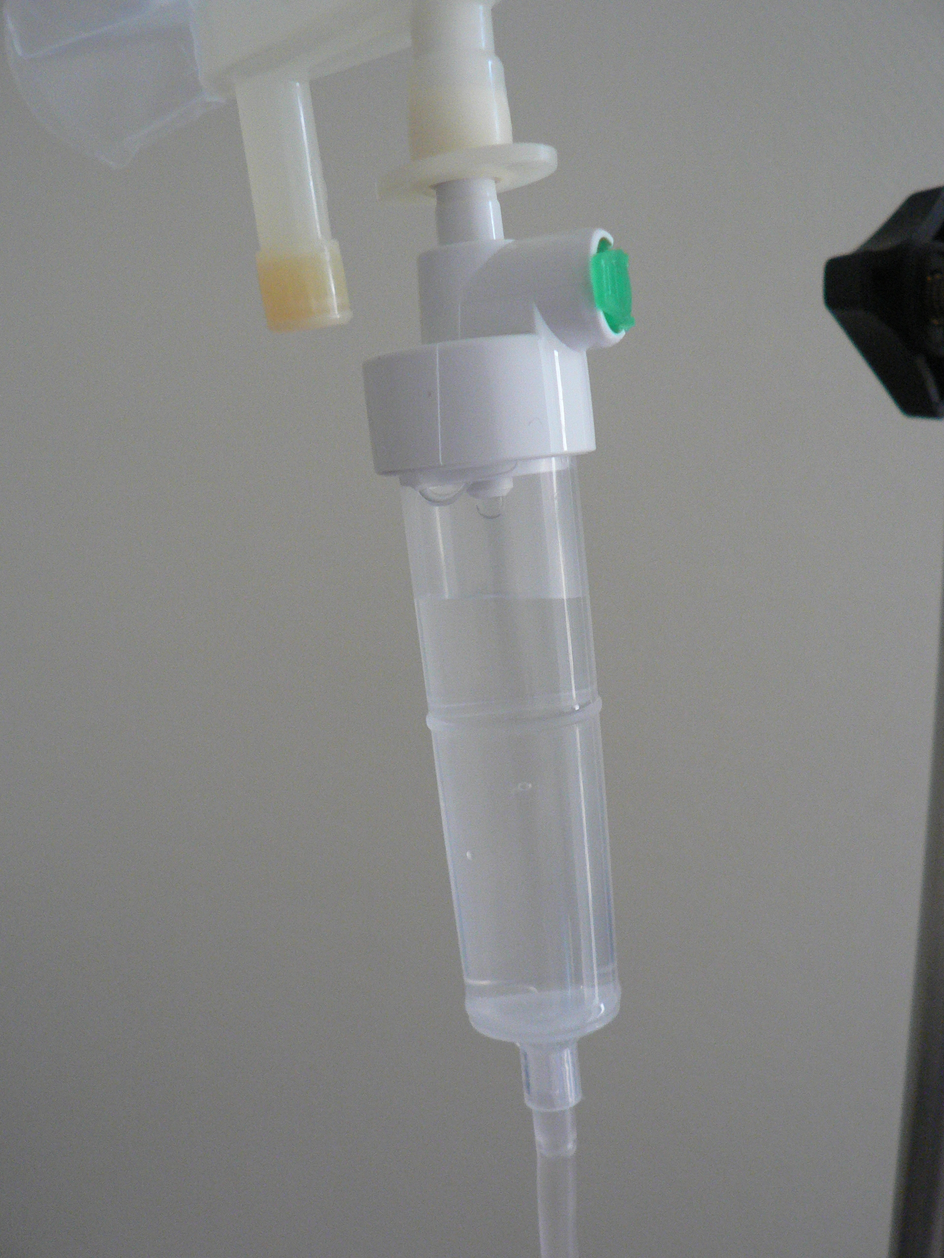 drop cilinder